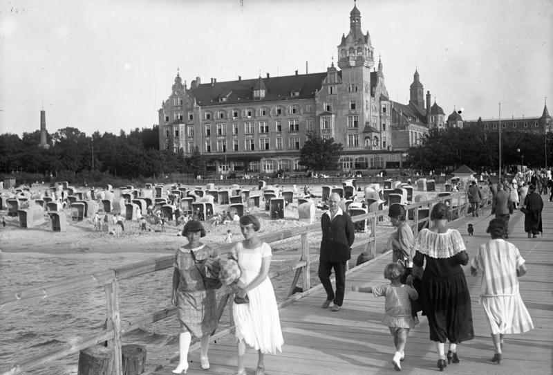 The beach and kursaal convention centre Strandschloss (Beach Castle) in Kolberg, Pomerania, (actually Kołobrzeg, Poland), erected in 1899, destroyed in 1945.